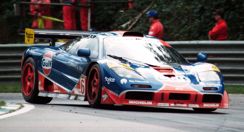 Photograph of a McLaren F1 GTR taken at Brands Hatch